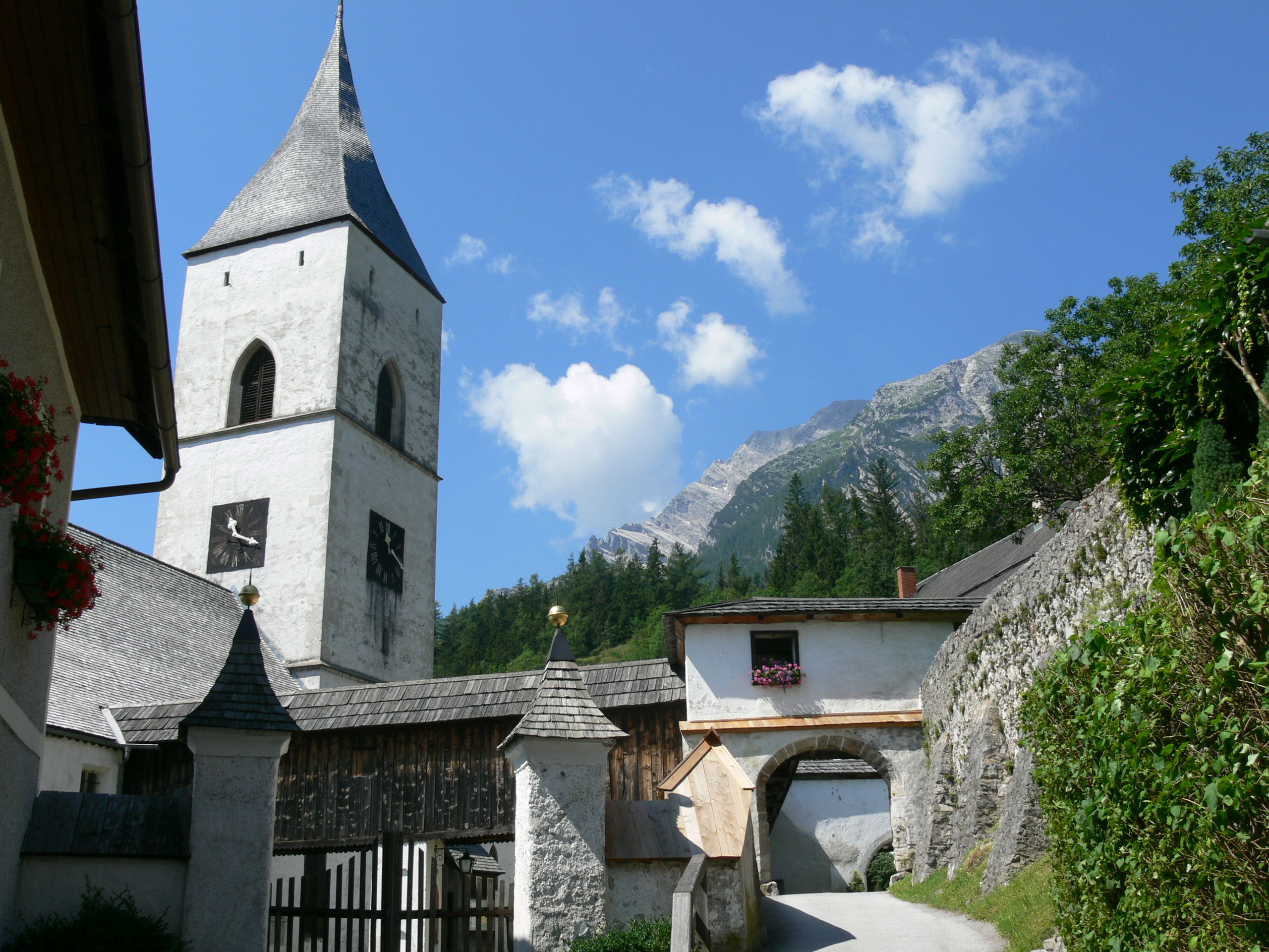 Pürgg, St.George parish church. Tower and entrance to the cemetery.